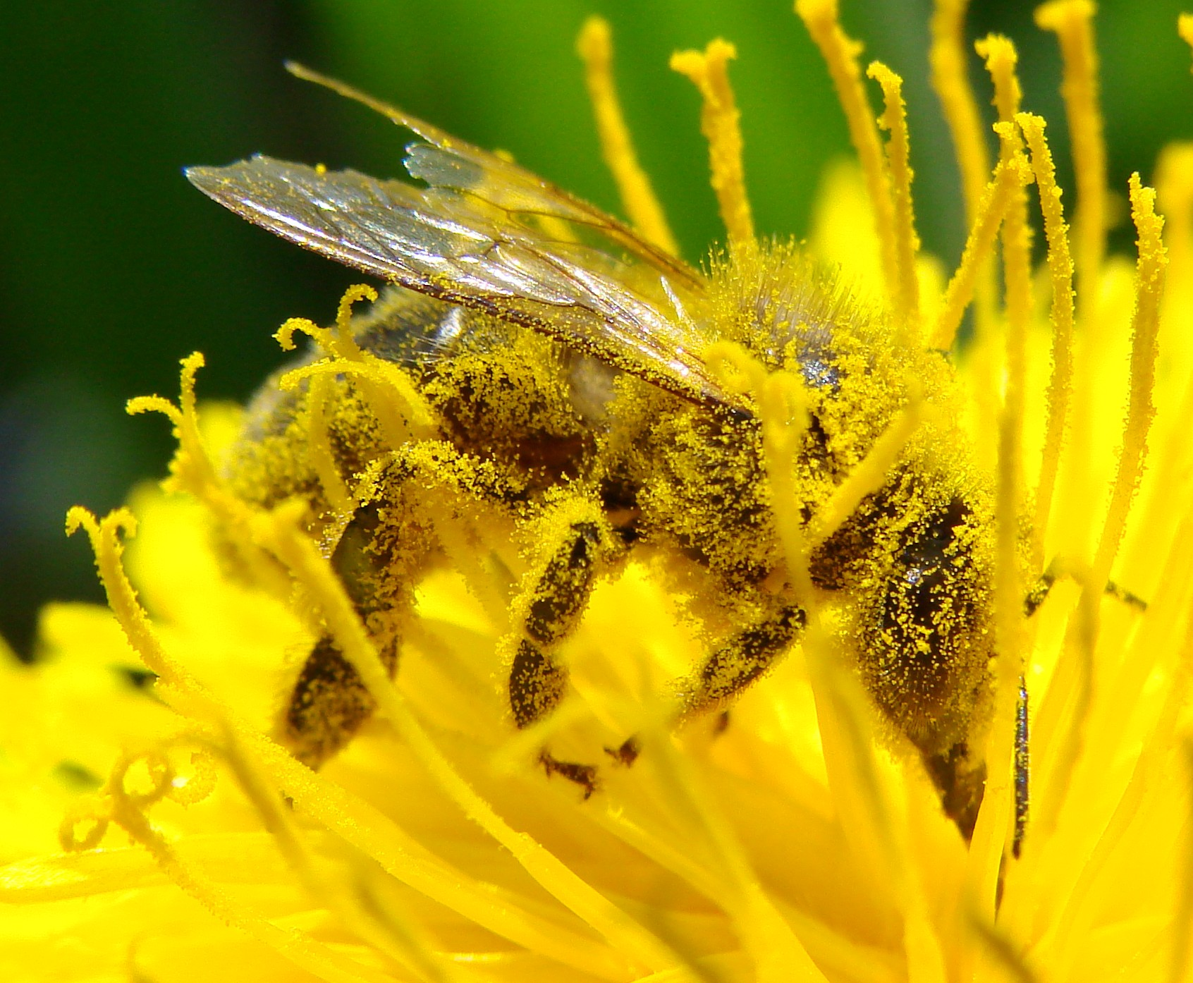 Pollination of Dandelion by a bee - it can seen the polen carryed by the bee on its body